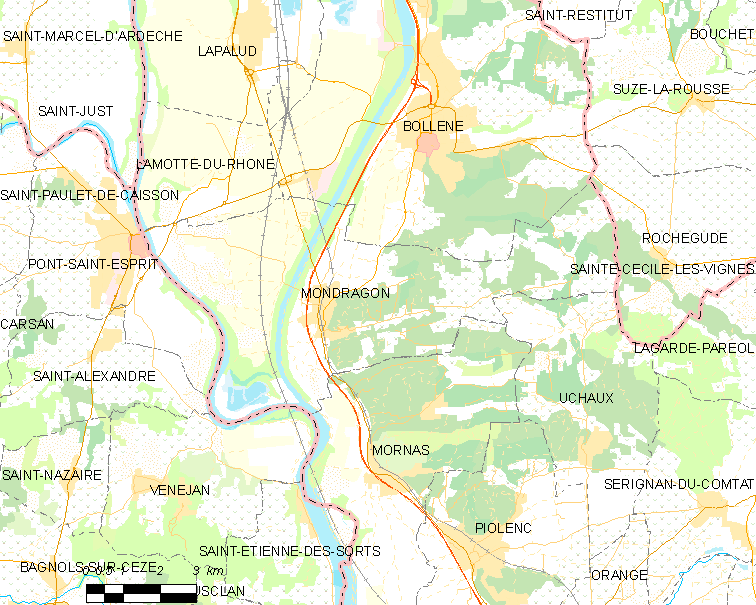 Map of French municipality Mondragon